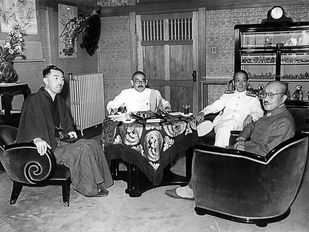 The Ogikubo Talk, a meeting held at Tekigai-sō, a private residence of then-the-Prime-Minister-designate Fumimaro Konoe (1891–1945). From left: Konoe, Foreign Minister Yōsuke Matsuoka, Naval Minister Zengo Yoshida and War Minister Hideki Tōjō.